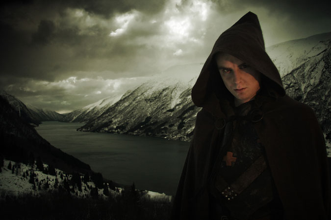 Promopicture for the music album Landkjenning of Glittertind. Picture taken in Fjærland, Sogn og Fjordane, Norway, 2009.